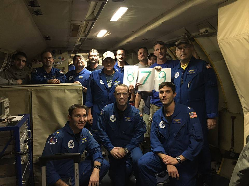 The crew of NOAA43 (NOAA Hurricane Hunters) commemorate their mission into Hurricane Patricia on October 23, 2015. During this flight, a Western Hemisphere record low pressure of 879 mb (hPa; 25.96 inHg) was observed. Back row: Joe Sapp, Mike Holmes, Joseph Klippel, Lonnie Kregelka, Jim Warnecke, Tim Gallagher, Chris Lalonde, Bill Olney, Dana Naeher, Bobby Peek. Kneeling: Pat Didier, Scott Price and Adam Abitbol.